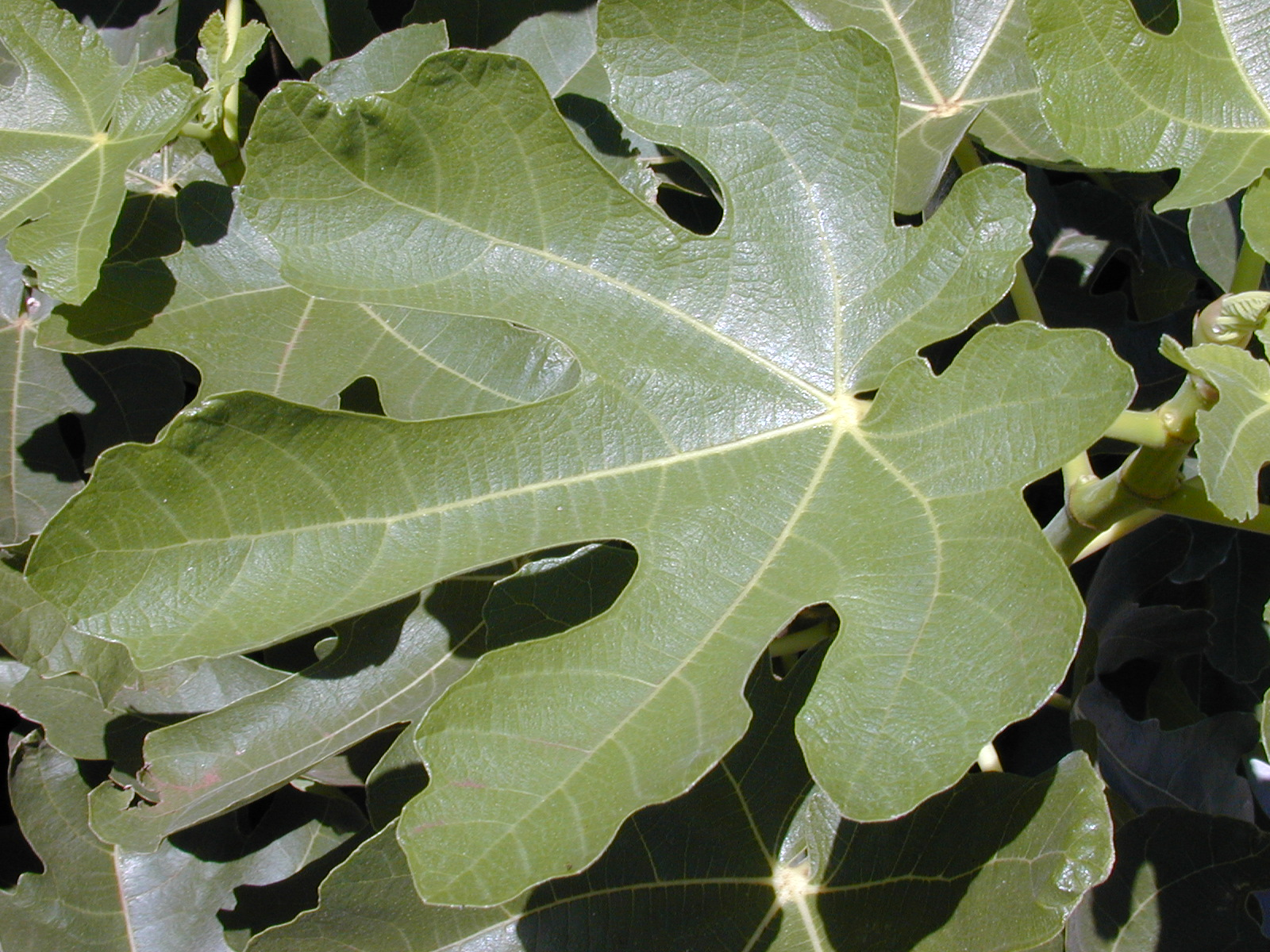 Ficus carica (leaf). Location: Maui, Kahului